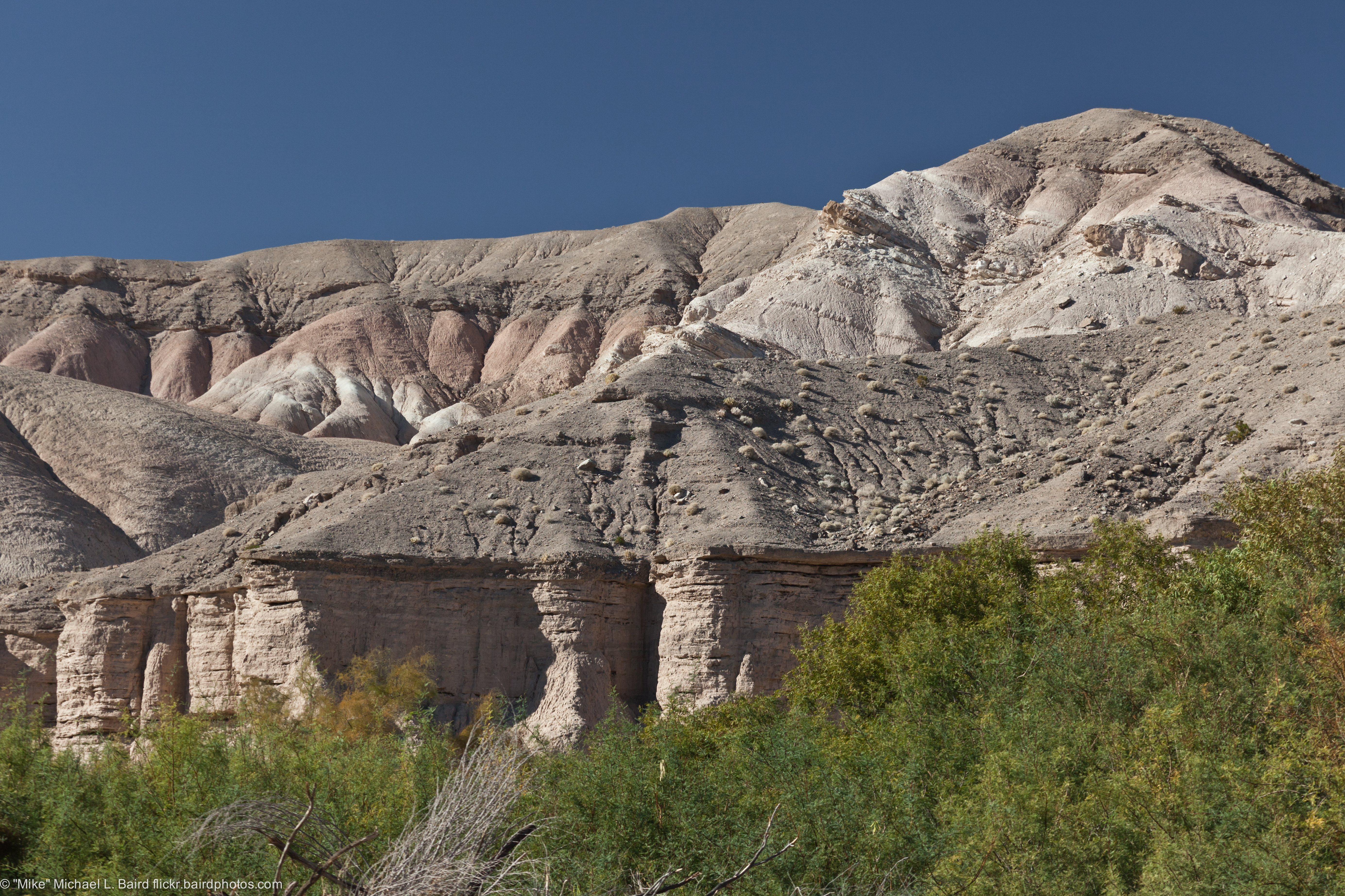 Canyon scene along road into the China Ranch date farm. From a weekend University of Riverside birding class 112−CPF−F62, Oct 21-23, 2011, at the Desert Studies Center at Zzyzx, CA, led by instructor Kurt Leuschner KLeuschner [at} collegeofthedesert d o t edu. AKA Birds of the Mojave Desert BIOL X404.2 Photo © 2011 “Mike” Michael L. Baird, mike {at] mikebaird d o t com, , Canon EOS 5D Mark II 21.1MP Full Frame CMOS Digital SLR Camera with Canon EF 100-400mm f4.5-5.6L IS USM Telephoto Zoom Lens, with no circular polarizer, handheld with IS on, RAW.